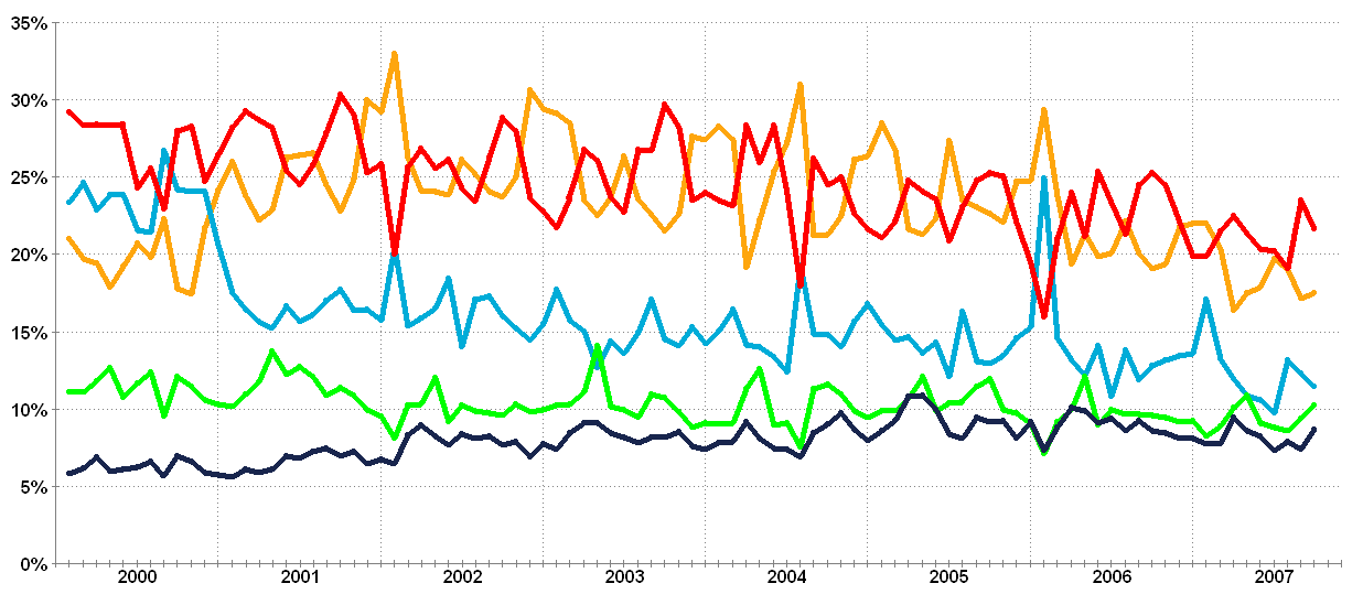 Viewing shares of the five major Swedish television channels between February 2000 and October 2007. Data comes from MMS. Made using Works and Paint. Orange = SVT1 Blue = SVT2 Green = TV3 Red = TV4 Dark blue = Kanal 5